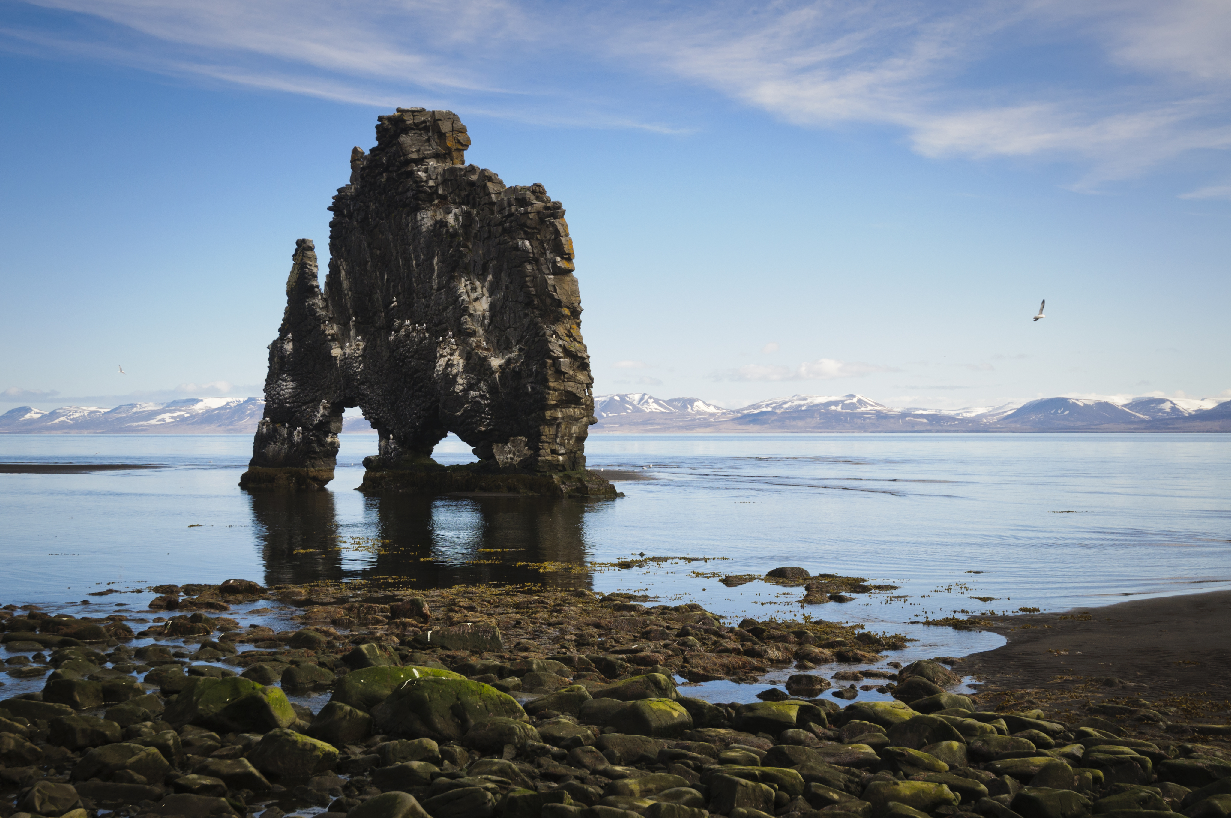 The freestanding seastack of Hvitserkur, Iceland.